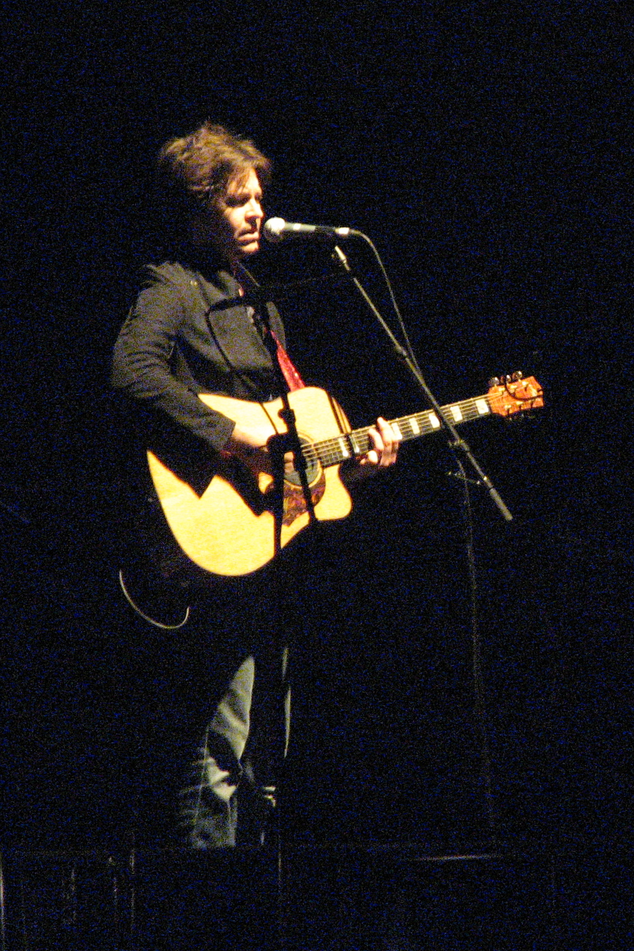 An image of Bernard Fanning, lead singer for Australian rock band Powderfinger performing with Powderfinger at their latest tour, in September 2007.